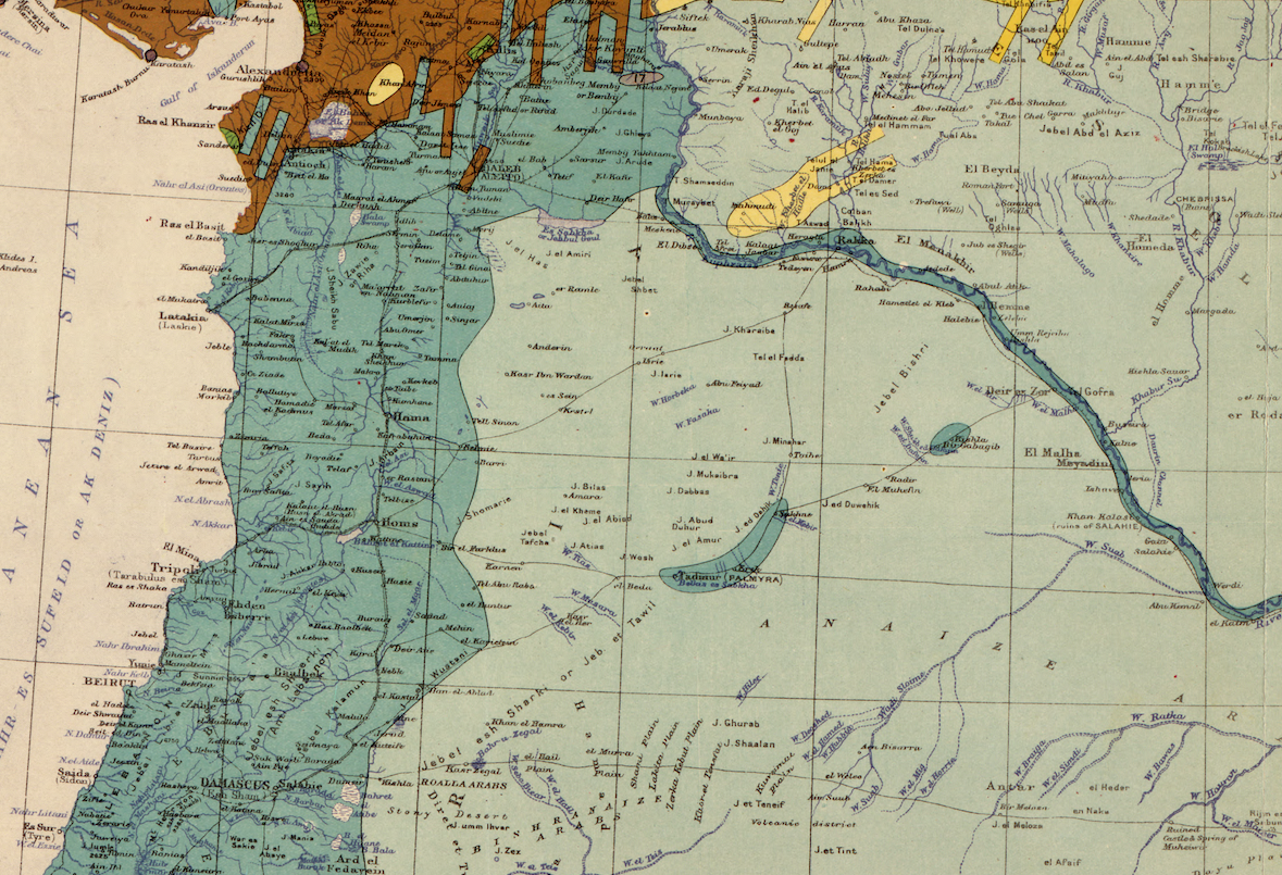 Northern Syria and Lebanon in Maunsell's map, Pre-World War I British Ethnographical Map of eastern Turkey in Asia, Syria and western Persia